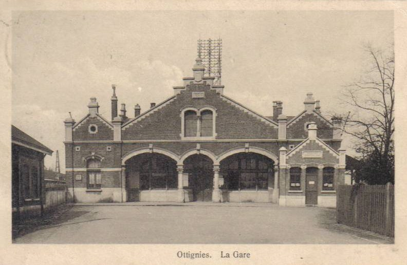 Ottignies (Brabant, Belgium) Train station in early 20th century.